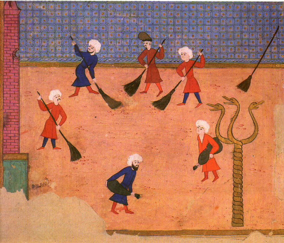 Image of street-sweepers in the Hippodrome of Constantinople. Ottoman miniature from the Surname-i Vehbi, kept at the Topkapı Sarayı Müzesi, Istanbul (Hazine 1344, folios 341a)